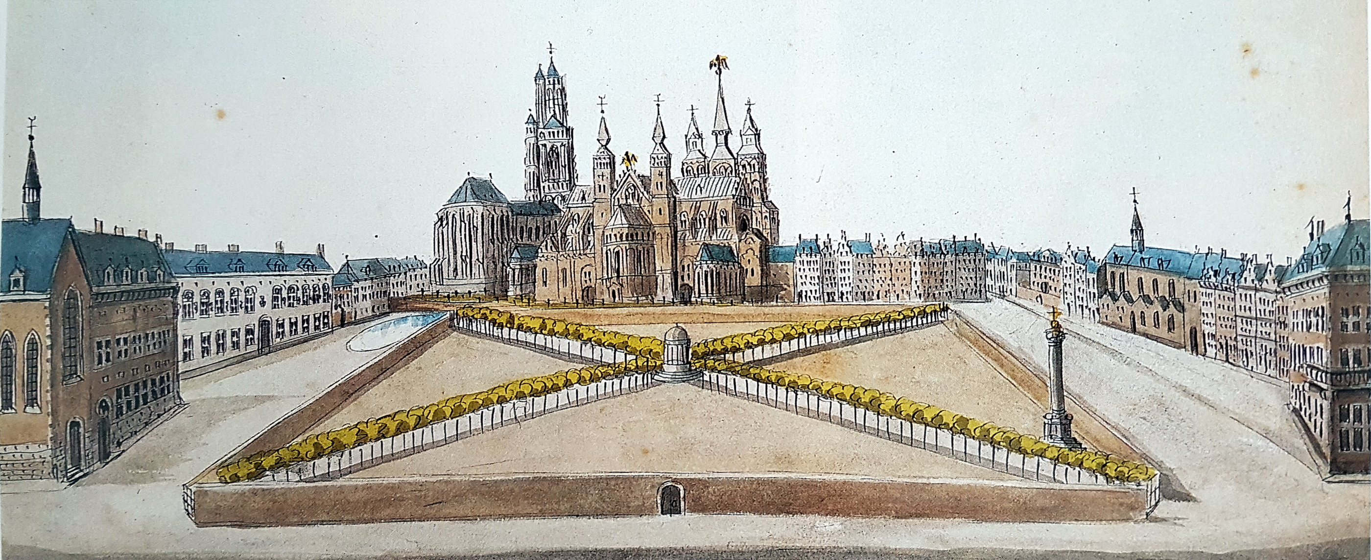 Historical reconstruction of a view of Vrijthof square in Maastricht, the Netherlands. The drawing is by Philippe van Gulpen (mid-19th c) but shows the square as Van Gulpen imagined it to have looked like around 1600.